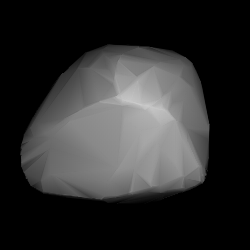 3D convex shape model of 1967 Menzel, computed using light curve inversion techniques. J. Hanuš, J. Ďurech, M. Brož, B. D. Warner (June 2011). "A study of asteroid pole-latitude distribution based on an extended set of shape models derived by the lightcurve inversion method". Astronomy and Astrophysics 530: A134. ISSN 0004-6361. arXiv